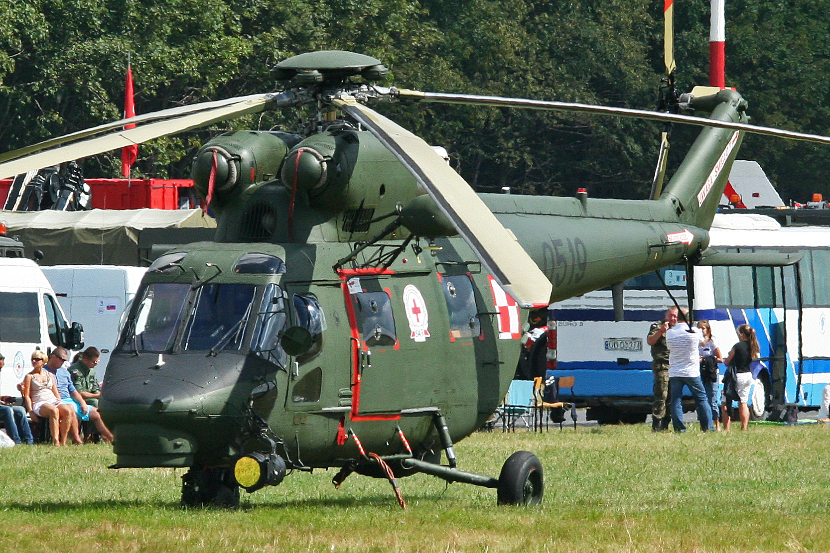 c/n 360519. Parked at the eastern end of the public area as an emergency response helicopter at the 2013 Airshow at Radom Airbase, Poland. 24-8-2013